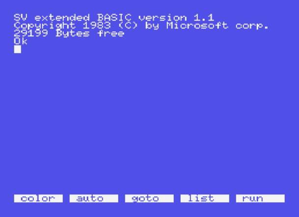 The startup screen of the 8-bit Spectravideo SV-328 home computer. It had a resolution of 256*192 pixels.